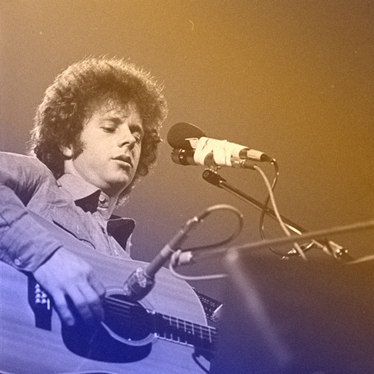 Chris Hillman (1972). Manassas, Dutch TV programme Toppop, Recordings 22 March 1972, Broadcast 10 June 1972